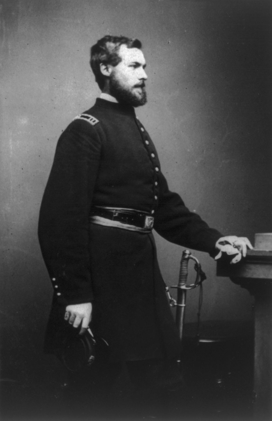 Prince Louis Philippe of Orleans, Count of Paris (Orleanist claimant to the French throne from 1848 and Legitimist claimant from 1884), in the uniform of a Captain in the U.S. Volunteers and staff officer to Major General George B. McClellan, 1862.